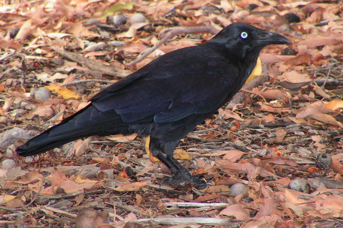 Australian Raven (Corvus coronoides), Nowra, NSW, Australia